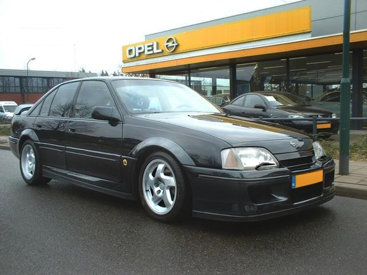 Lotus sported the original Omega